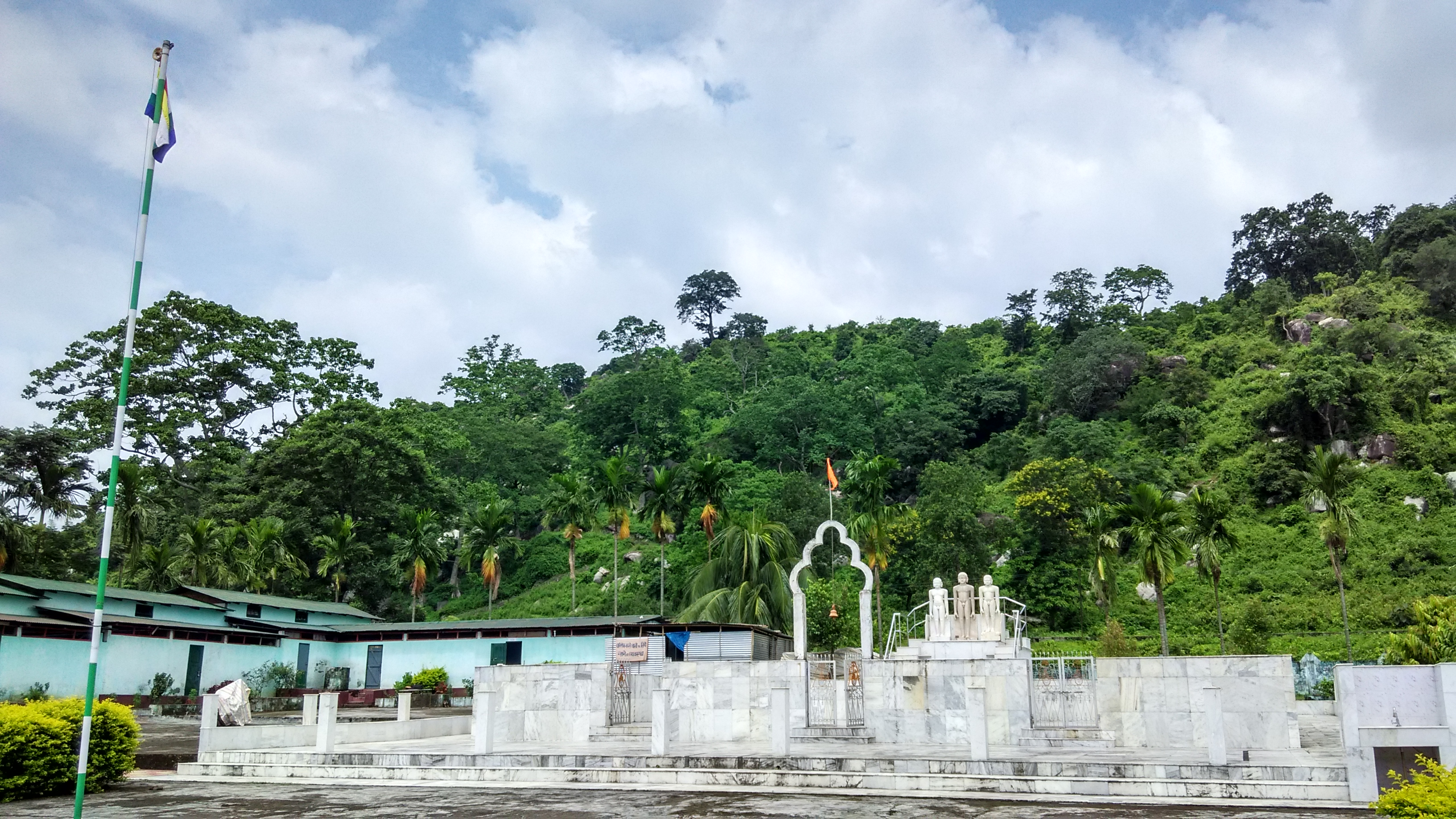 Sri Suryapahar Ruins